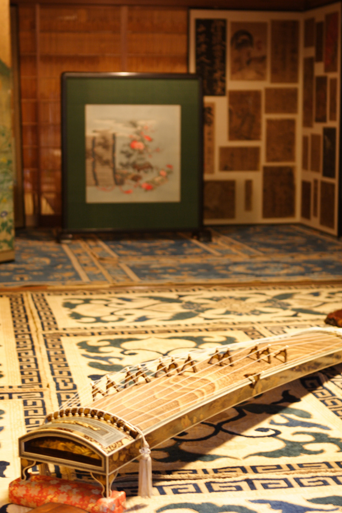 Koto in Kyoto